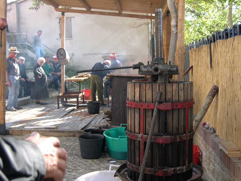 Preparation of vino cotto